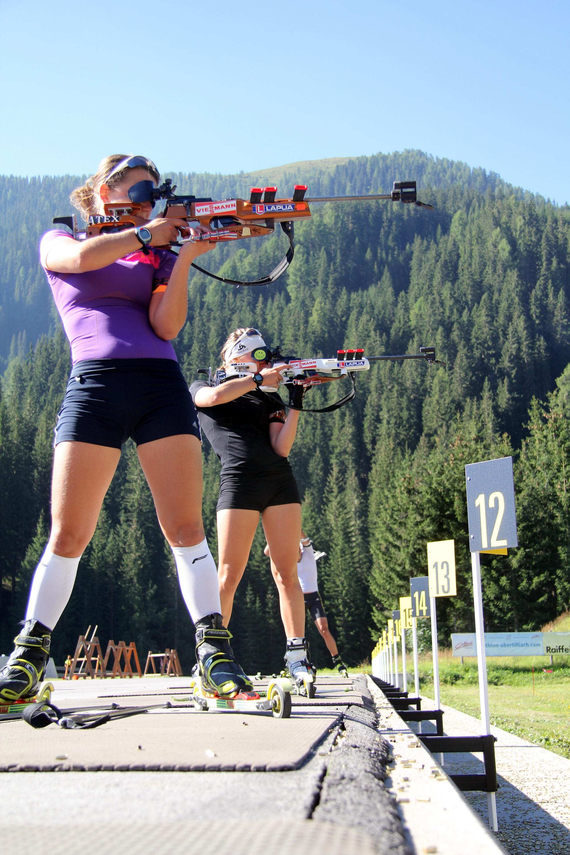 Paulina Fialková and Martina Chrapánová at summer training in Obertilliach